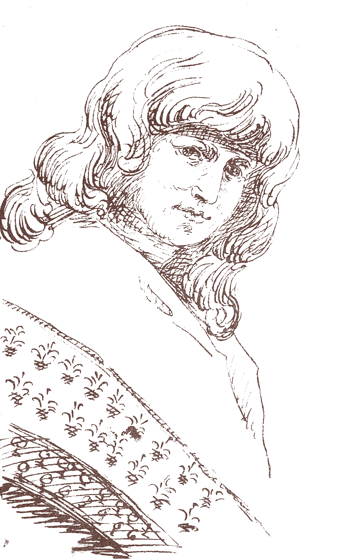 Christiane with scarf, pencil, pen with sepia. 255x164mm.